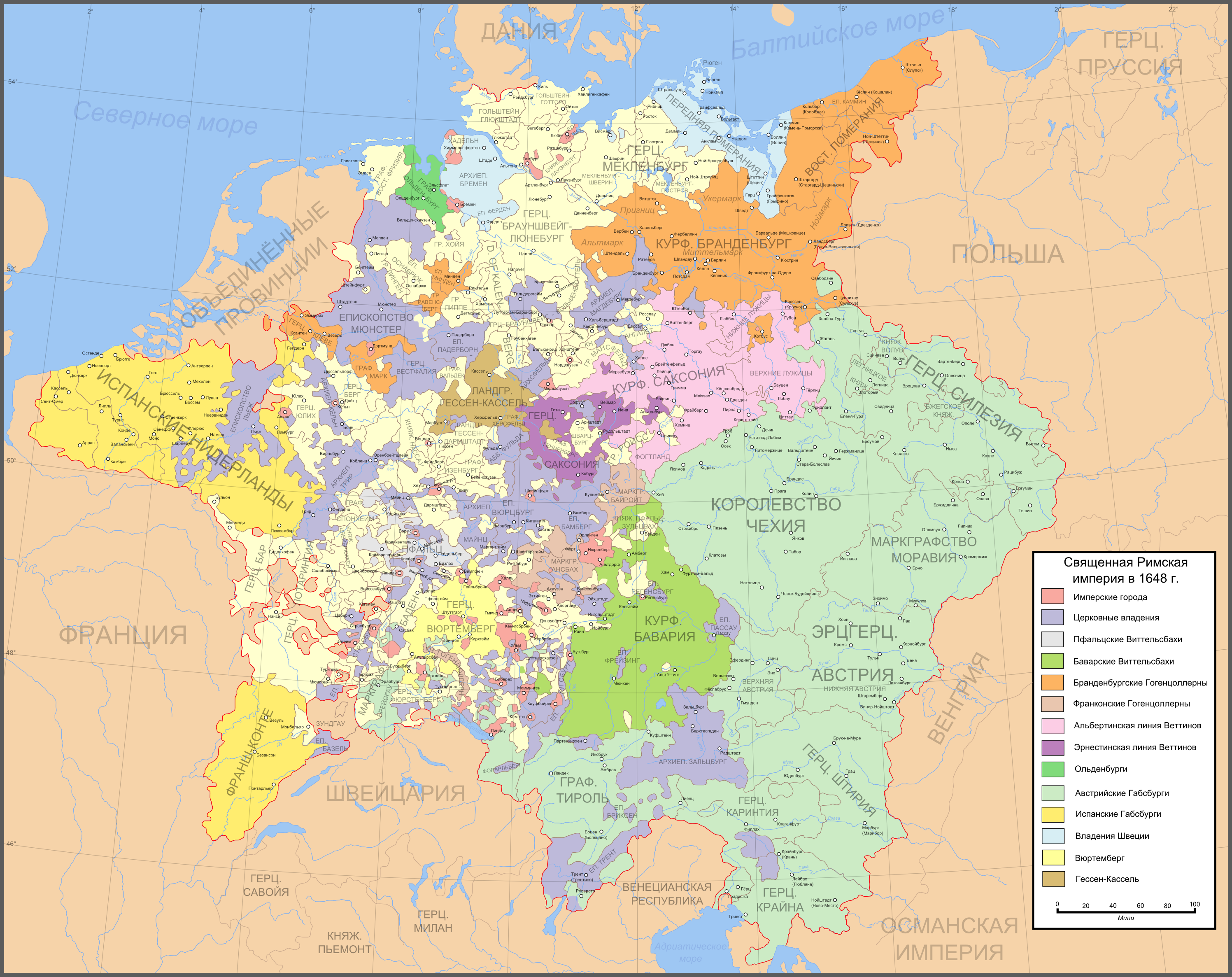 Map of the Holy Roman Empire in 1648, after the Peace of Westphalia in Russian language.